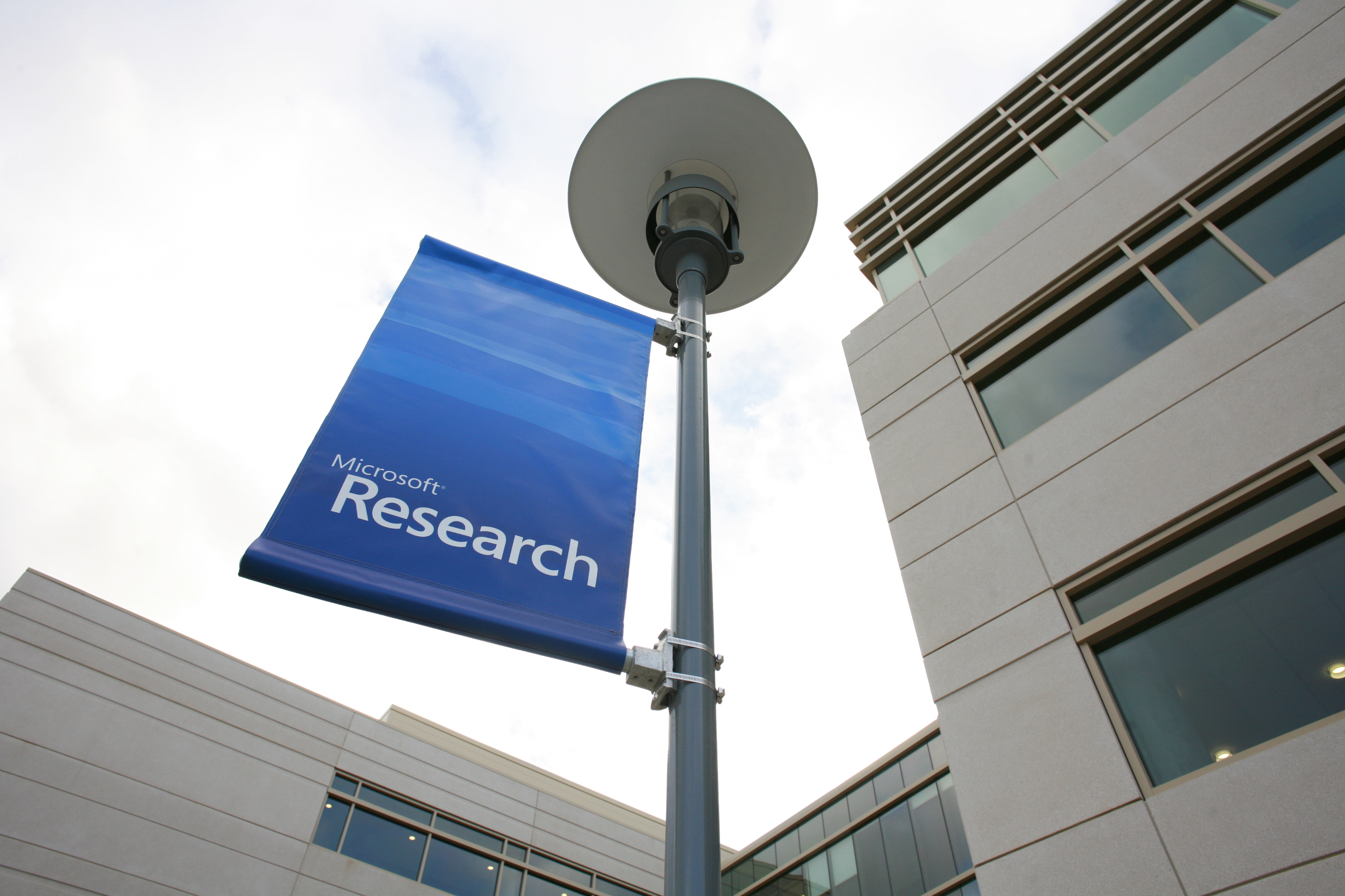 These are photos from our visit to Microsoft's new Research building "99" in Redmond, WA.